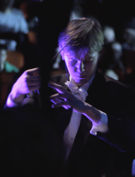 The composer Frederik Magle conducting a symphony orchestra. Still photo from a video shot by Baltazar Hertel in the Copenhagen Concert Hall, September 10, 2011 (Cropped version of this picture).